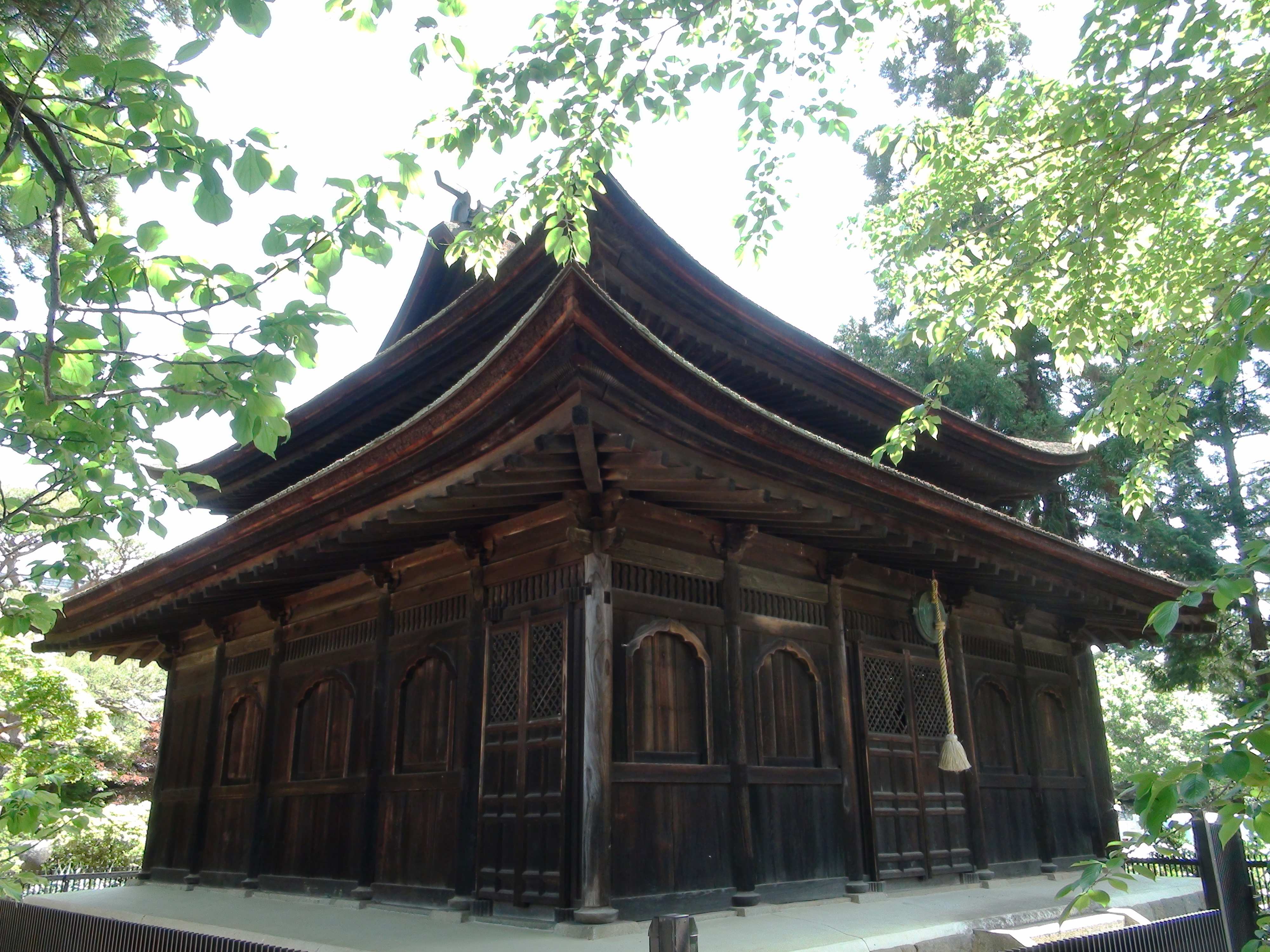 Seihaku-ji Butsuden of 1415, a National Treasures of Japan